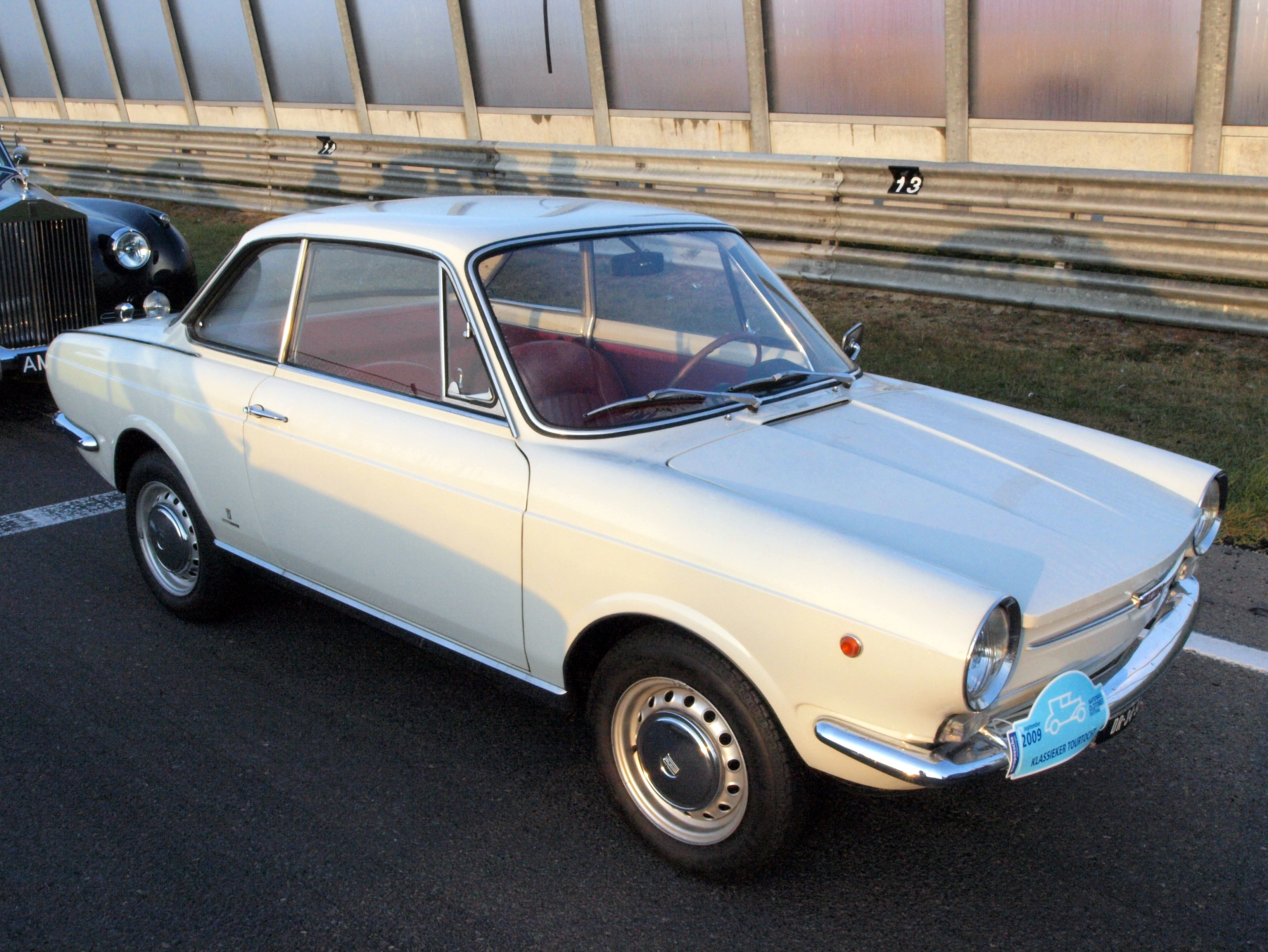 Photographed at the Nationaal Oldtimer Festival Zandvoort 2009, The Netherlands. OLYMPUS DIGITAL CAMERA